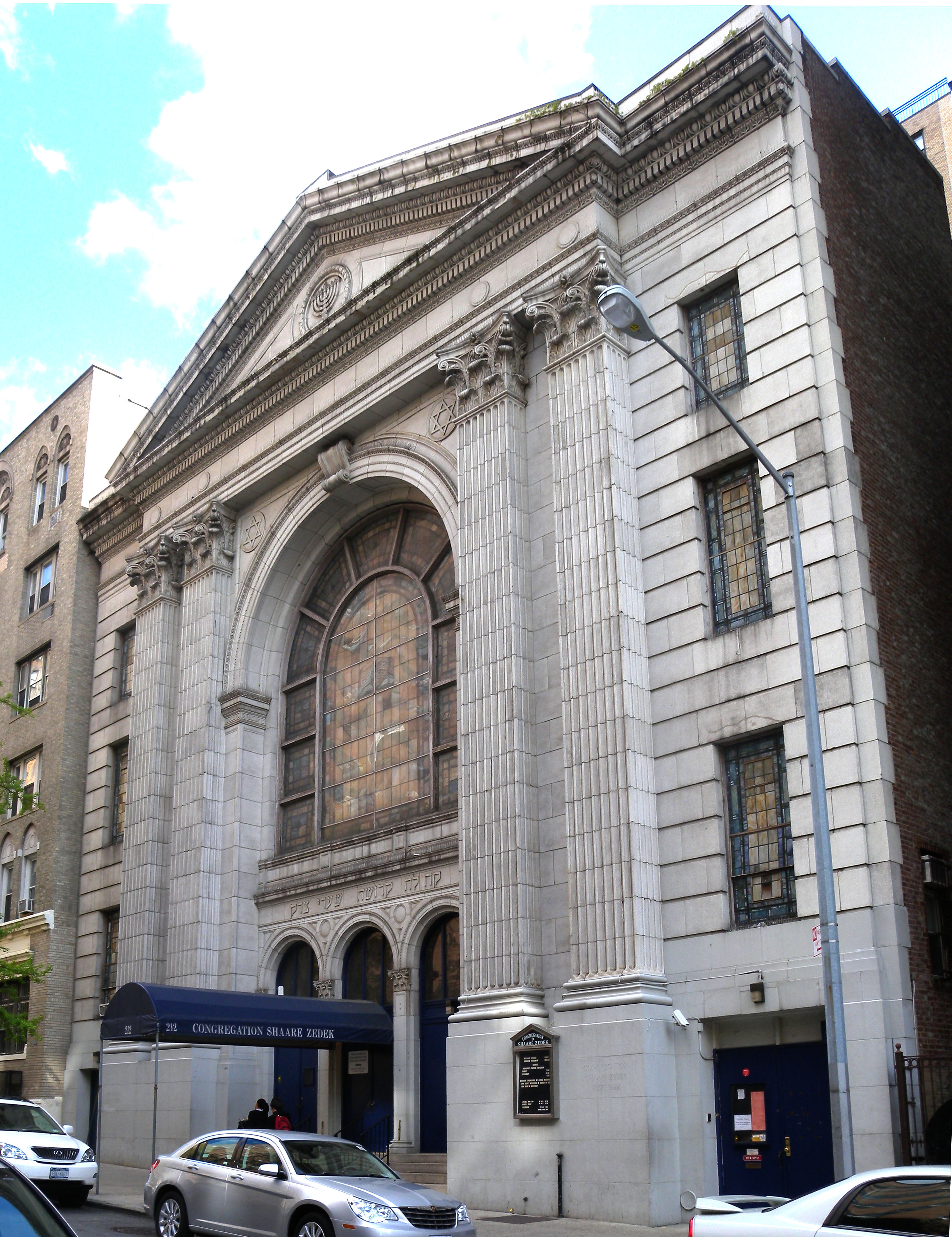 Looking south across 93d Street at Congregation Shaare Zedek (New York City) on a sunny afternoon. See also File:WTM3 The Fixers 0013.jpg.